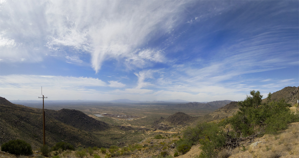 Looking south-west from the top of Yarnell Hill, located south-west of Prescott, Arizona.